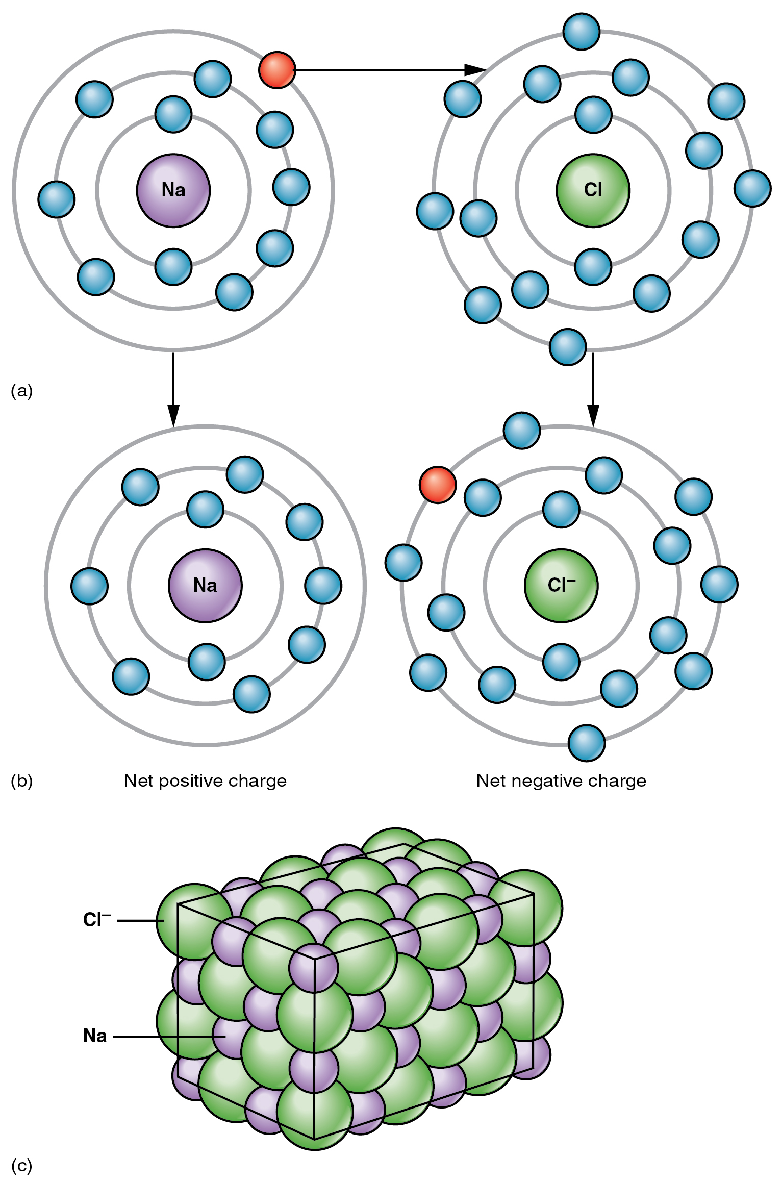 Illustration from Anatomy & Physiology, Connexions Web site. Jun 19, 2013.